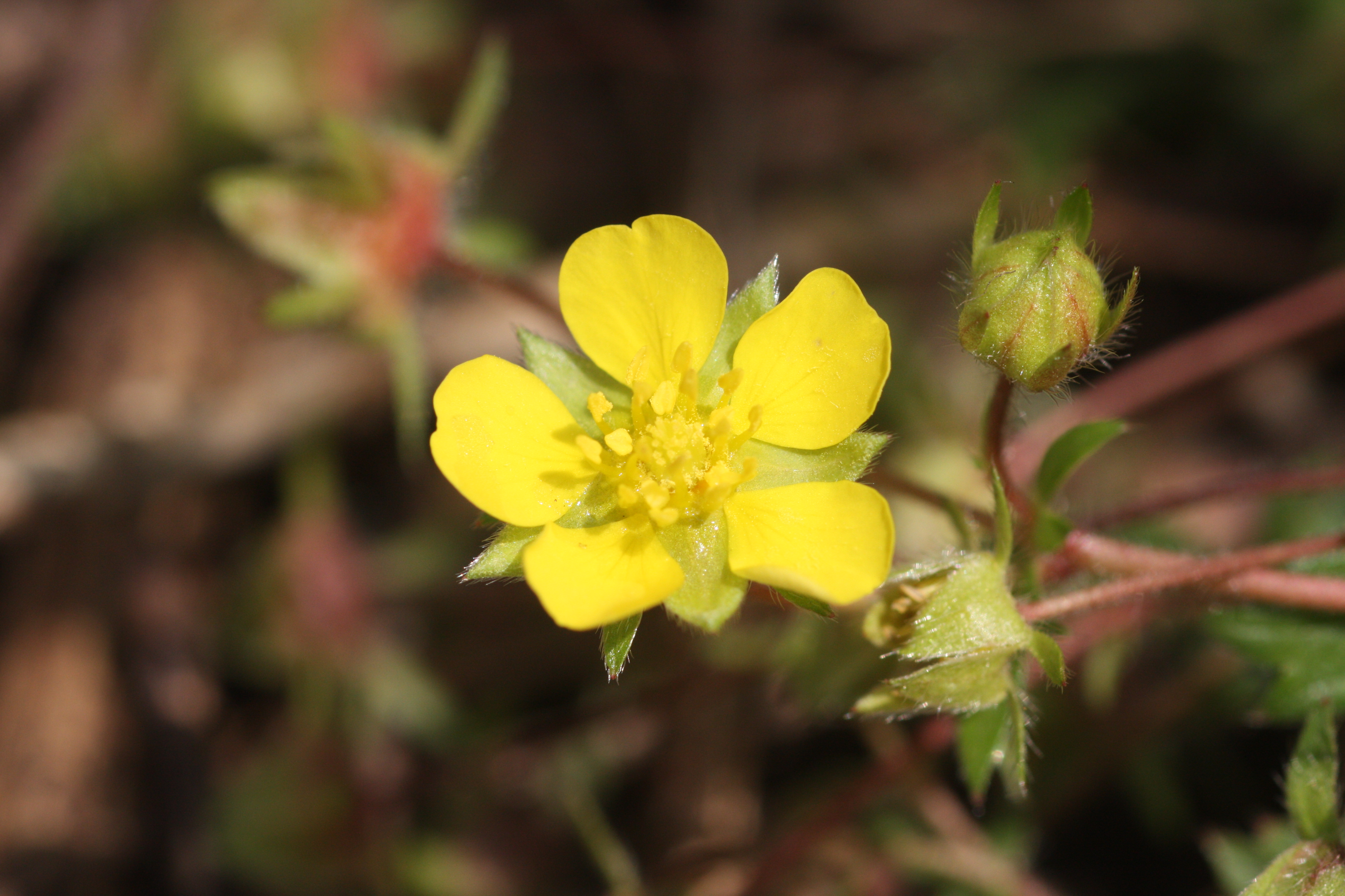 Potentilla fragarioides var. major in Bupyung, Korea